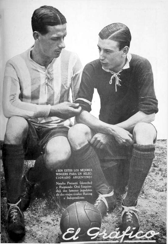 Natalio Perinetti (Racing) and Raimundo Orsi (Independiente) in 1926.